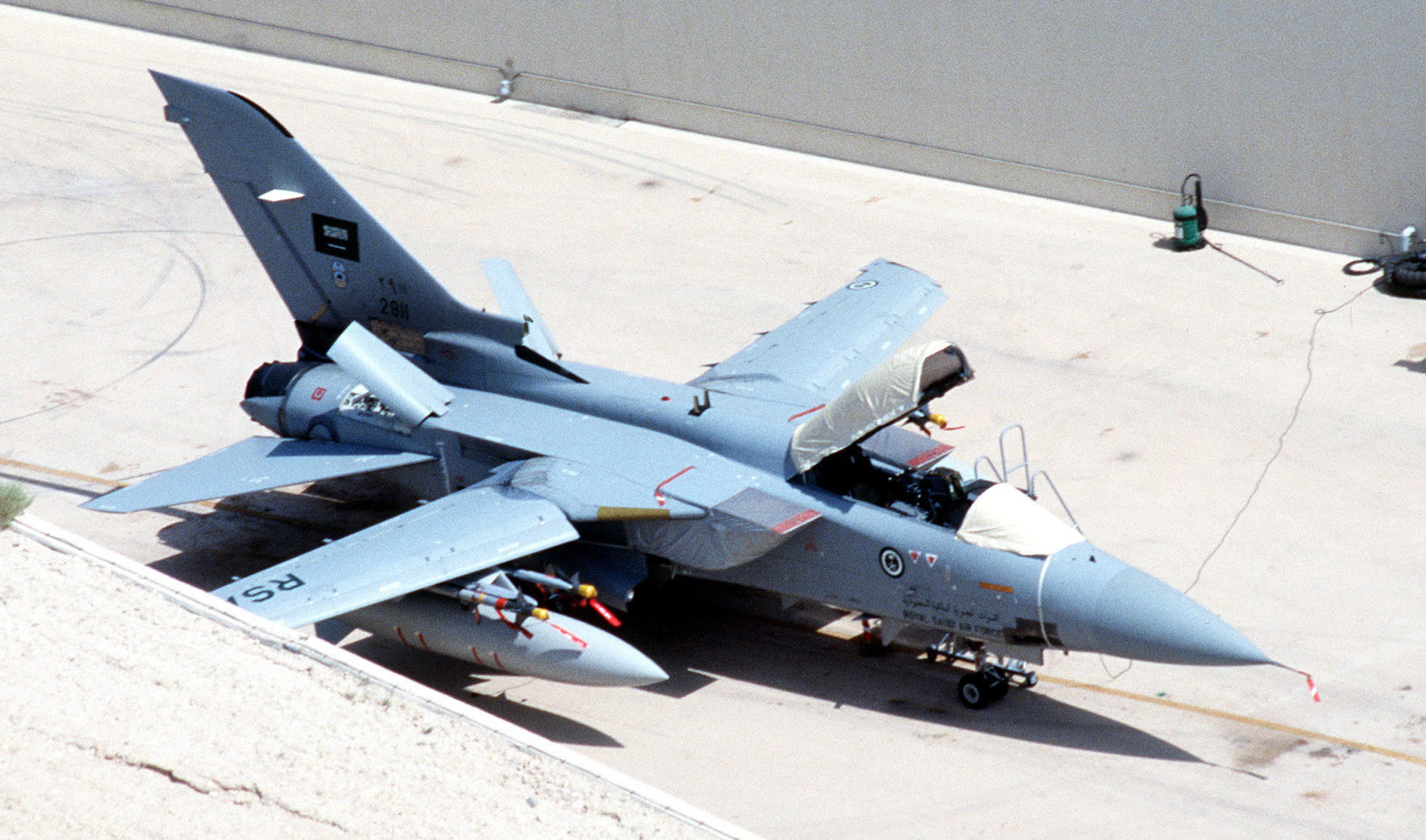 A Tornado F.Mk 3 aircraft of the Royal Saudi air force sits on the flight line during Operation DESERT SHIELD (Gulf War).